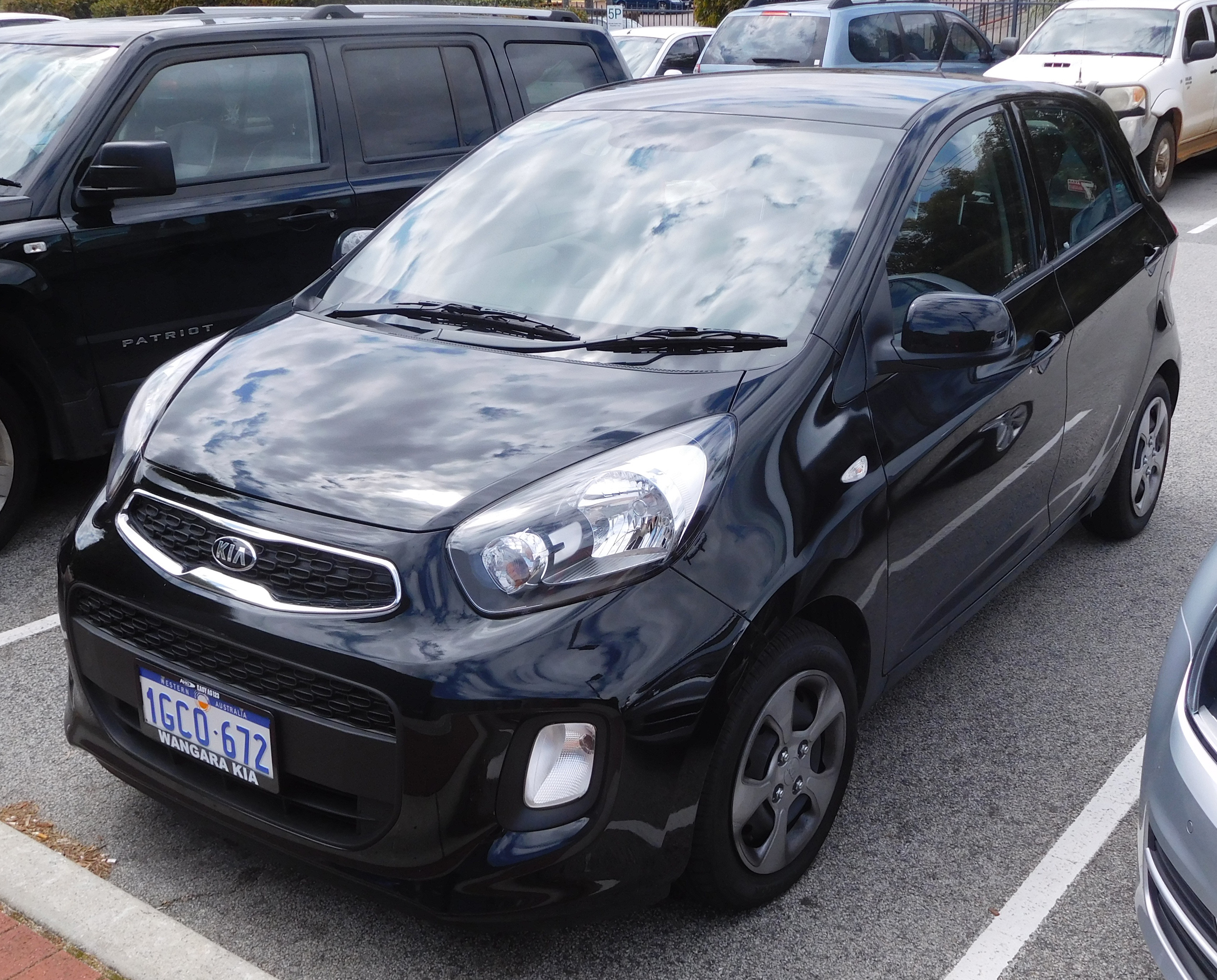 2016 Kia Picanto (TA) Si 5-door hatchback. Photographed in Innaloo, Western Australia, Australia